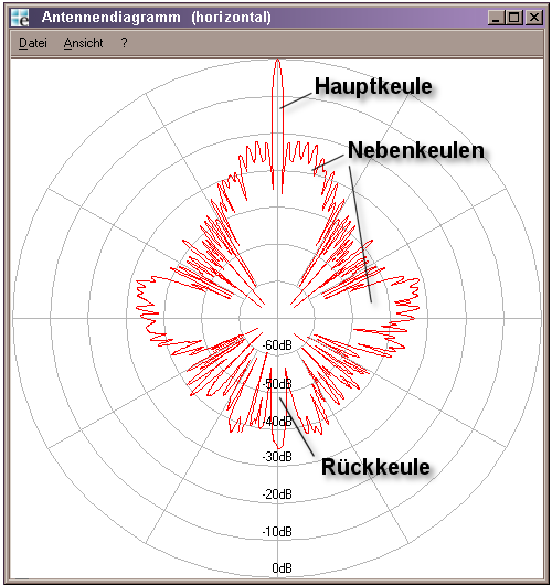 Snapshot of the measured radiation pattern of a parabolic antenna. The main lobe (top) beamwidth is just a few degrees wide. Note that the scale is logarithmic; the sidelobes are all more than 20dB down (1/100 the signal strength on the main axis), and almost all more than 30dB down. Hauptkeule - main lobe Nebenkeulen - sidelobes Ruckkeule - backlobe